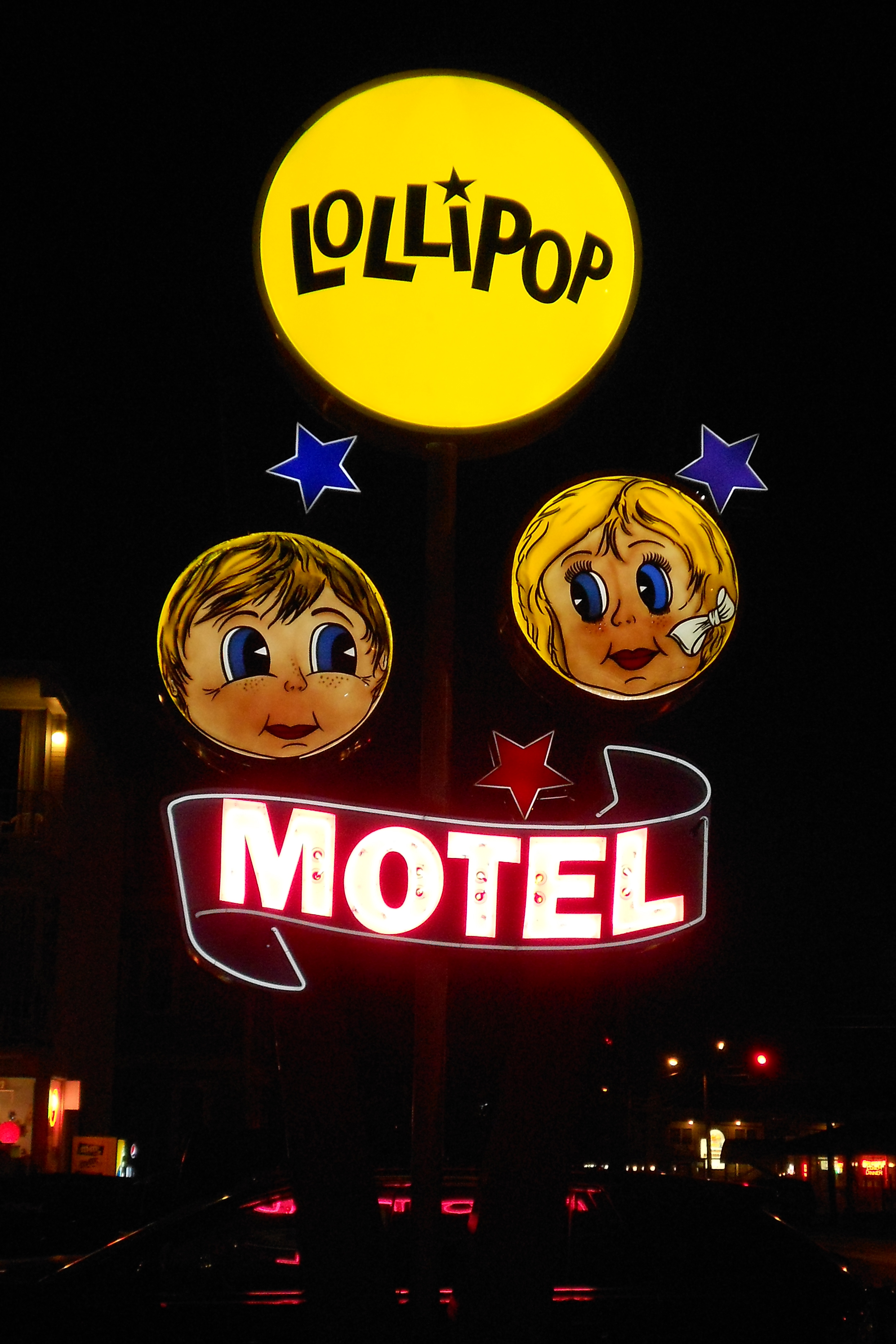 Sign of the Lollipop Motel in North Wildwood, NewJersey in the Wildwoods Shore Resort Historic District (on the New Jersey Register of Historic Places)